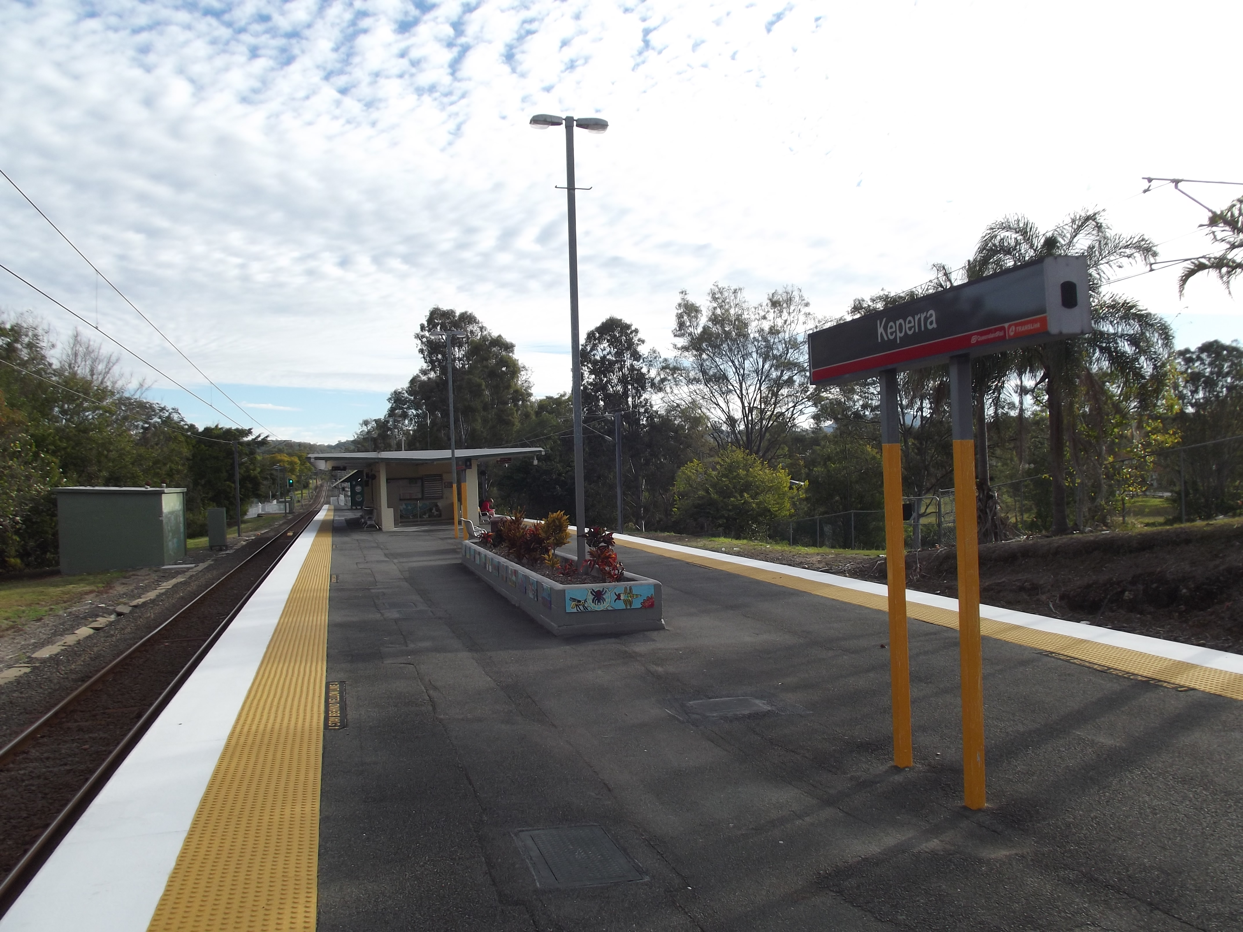 A photo of the Keperra railway station on the Ferny Grove line.